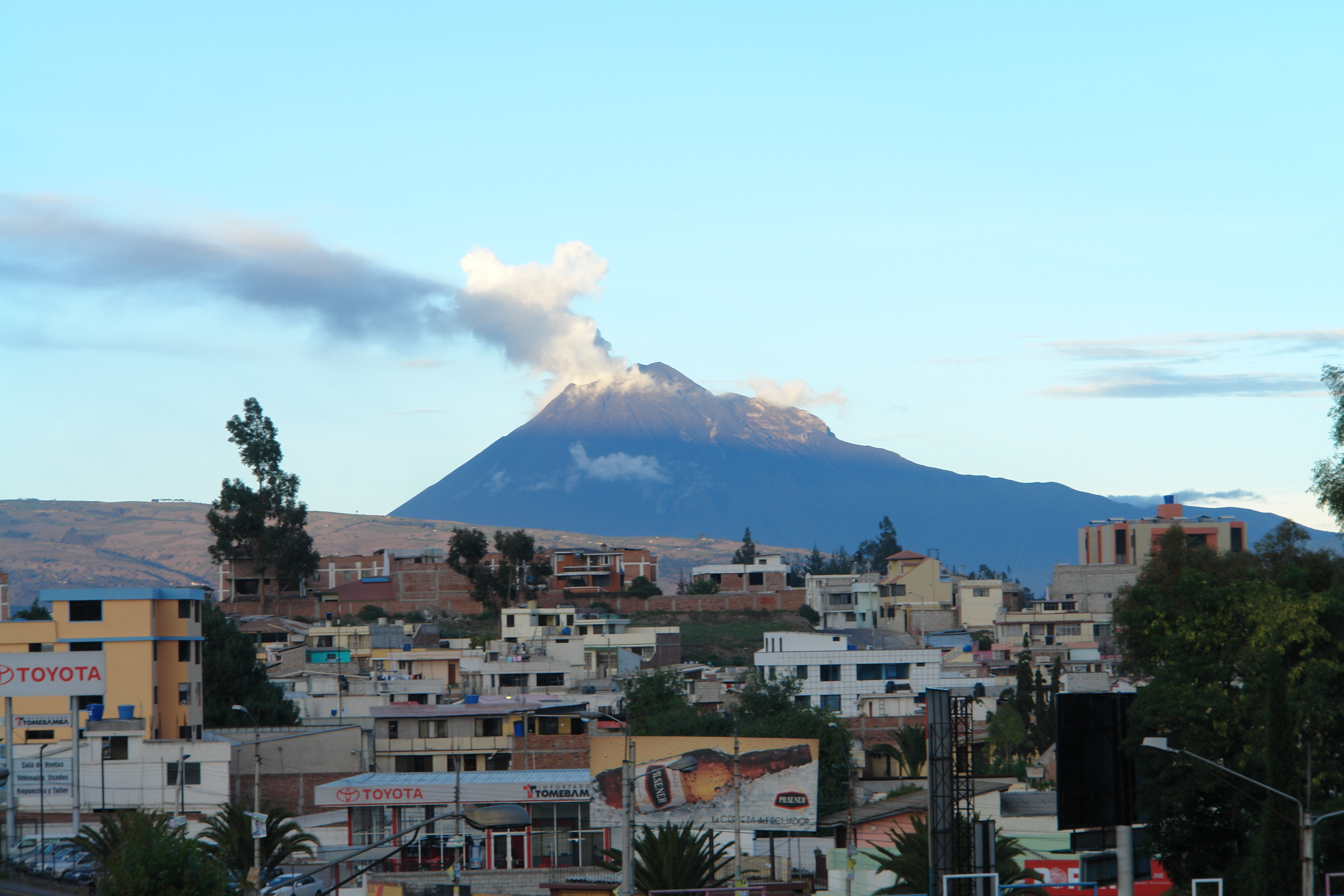 Tungurahu volcano viewed from Riobamba, Ecuador